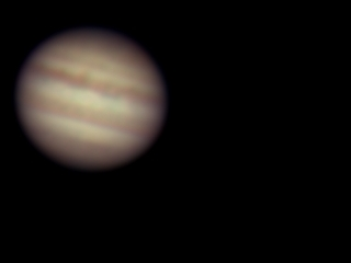 The planet Jupiter as photographed from the Ilan Ramon youth physics center. photo taken with a MEADE DSI III camera via a LX200 16" MEADE telescope.